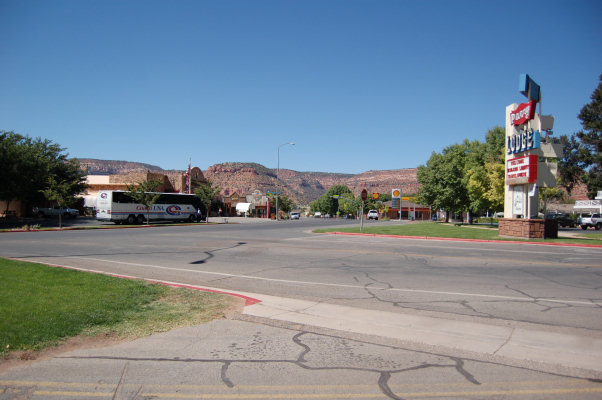 View of highway 89 through Kanab, Utah.